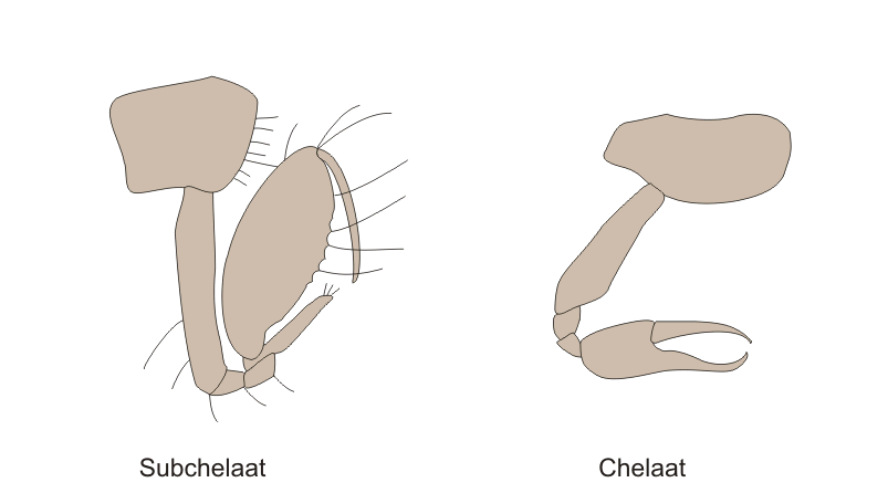 General layout of amphipod gnathopods (Dutch version)